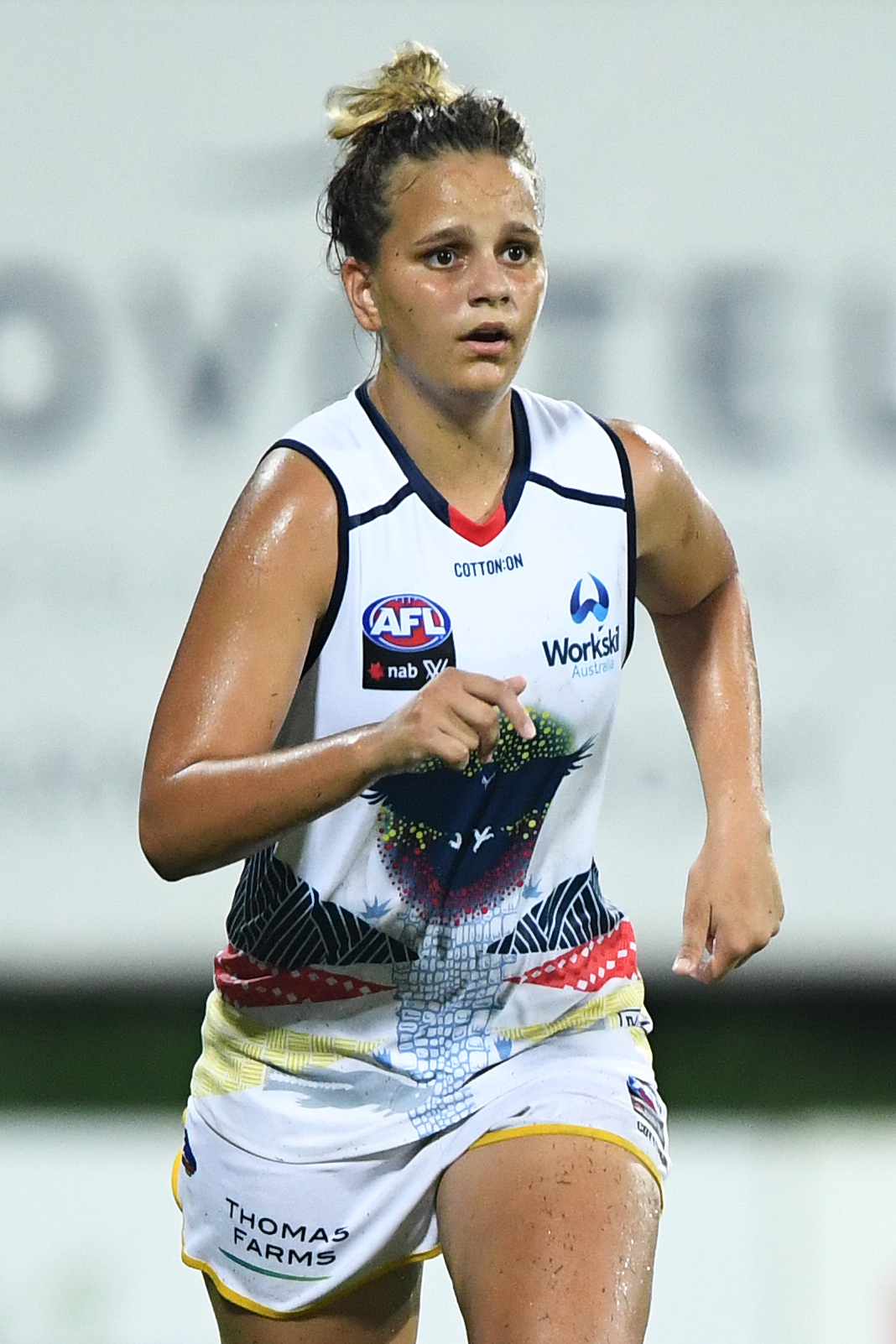 Danielle Ponter of Adelaide during the 2019 AFL Women's practice match between the Adelaide Football Club and Fremantle Football Club at TIO Stadium on January 19, 2019 in Darwin Australia.